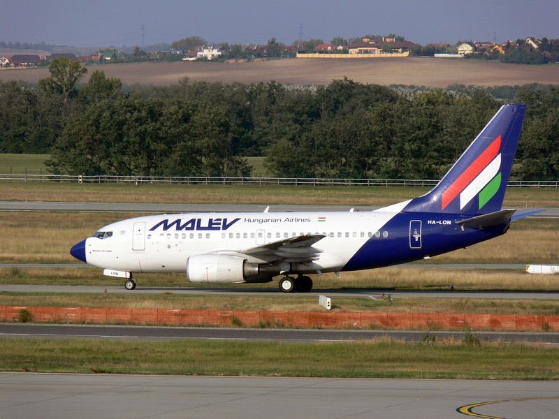 Boeing 737-600 Malév Hungarian Airlines (HA-LON)